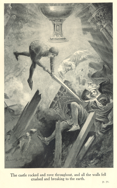 "The castle rocked and rove throughout, and all the walls fell crashed and breaking to the earth" by Lancelot Speed from: The Legends of King Arthur and His Knights . 9th edn. By Sir James Knowles, K. C. V. O. London; New York: Frederick Warne and Co., 1912. Sir Balin stabs the Fisher King in the "Dolorous Stroke"